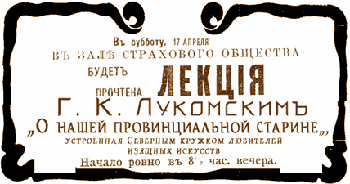 Georgy Lukomsky's 1913's Vologda lecture ad.